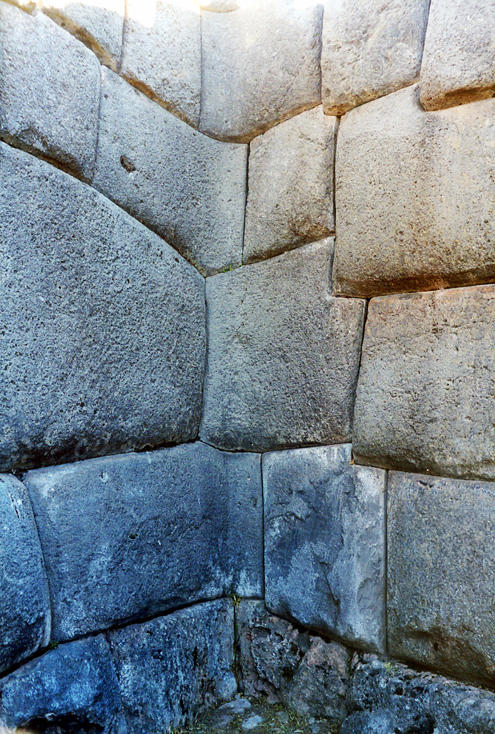 Sacsahuamán (Sacsayhuamán), Cusco, Peru. The photo was taken in June 2002 by Håkan Svensson (Xauxa).